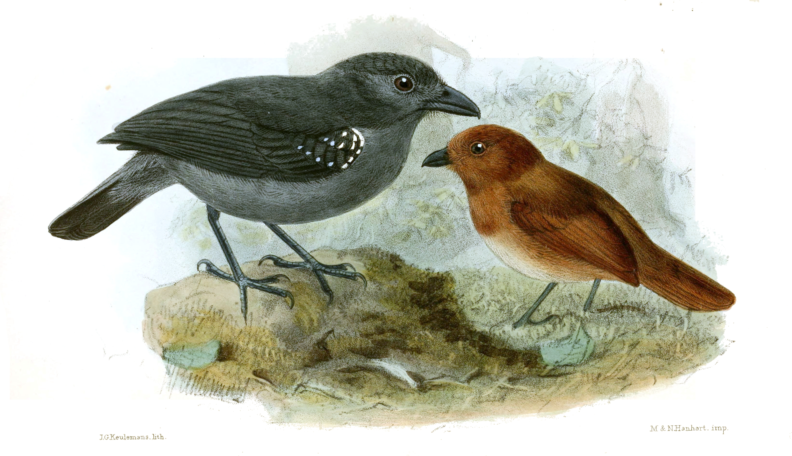 « Thamnophilus simplex » = Thamnophilus aethiops incertus (Subspecies of White-shouldered Antshrike) - male and female